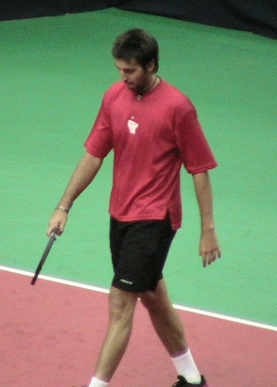 Sergio Roitman (ARG) at 2006 Kremlin Cup